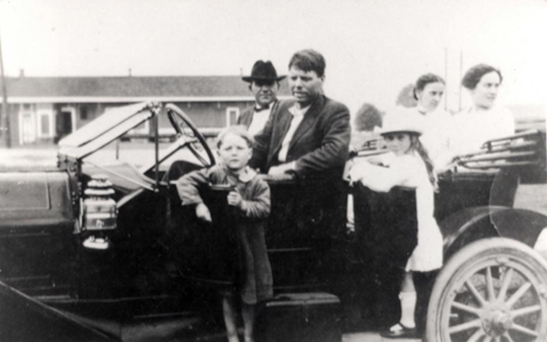 The discovered child, originally believed to be Bobby Dunbar, but proven in 2004, through DNA testing, not to be related to the Dunbar family, beside a car with unidentified people.